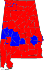 County map results